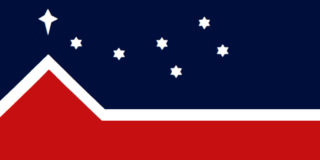 First seen at the 1987 founding convention of the Western Independence Association of Canada in Edmonton, Alberta.